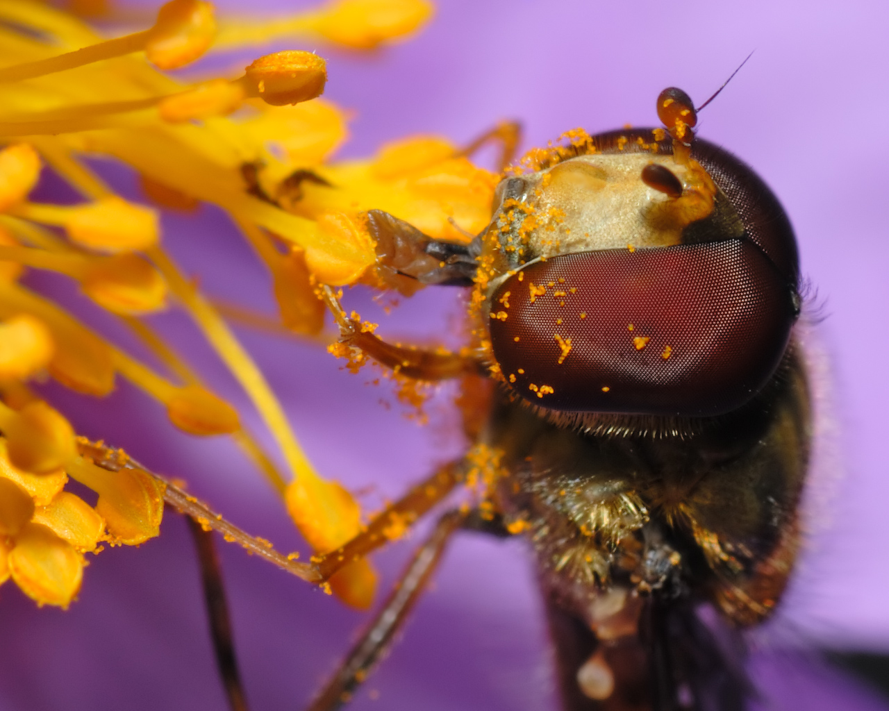 This image shows a close-up of the head of a marmelade fly (Episyrphus balteatus) sitting on a flower of a Grey-haired Rockrose (Cistus creticus). The fly head has a diameter of 0.1 inch (2.5 mm).This image is a 100% crop and not a downscaled version of a larger photo.